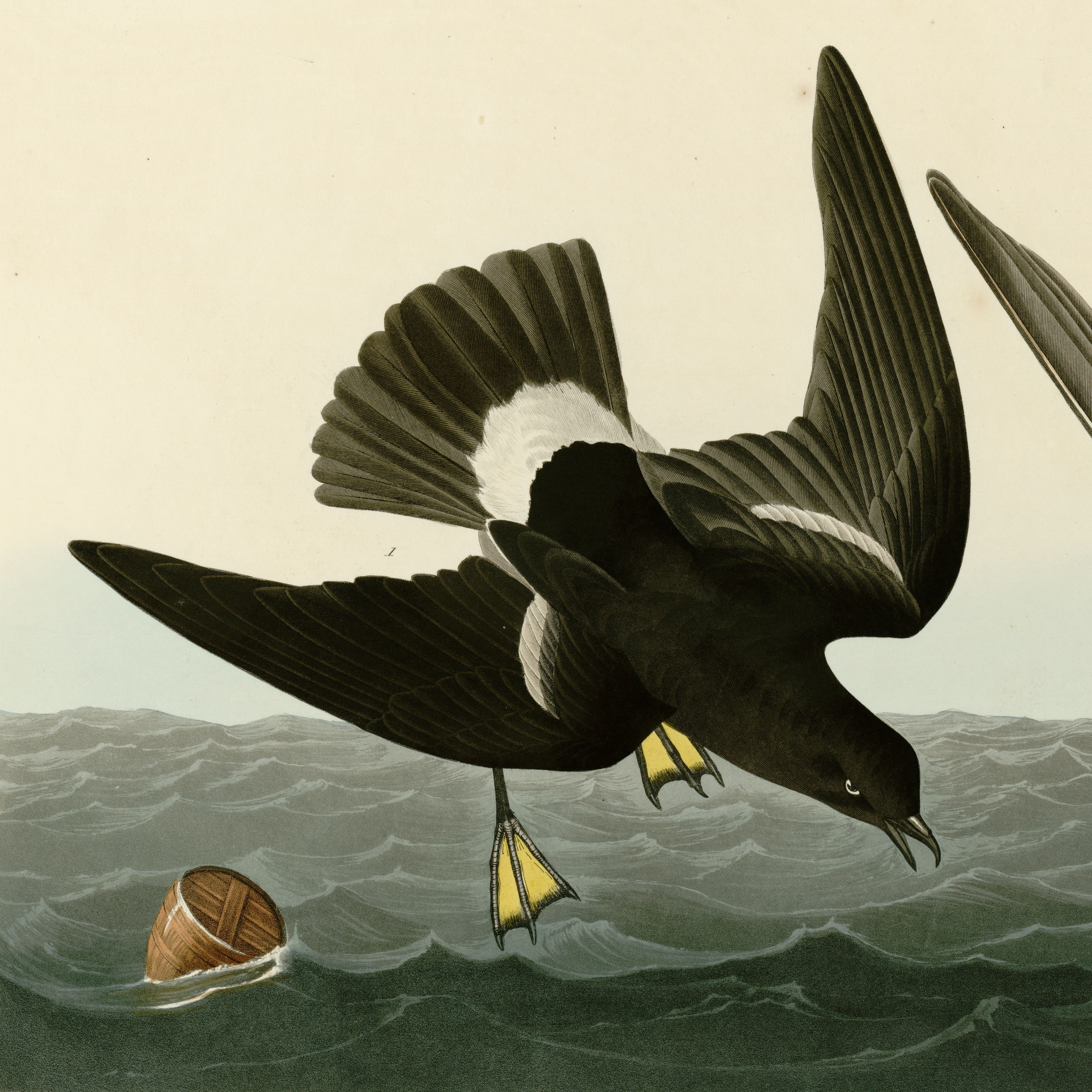 Plate 270 of Birds of America by John James Audubon depicting Stormy Petrel.